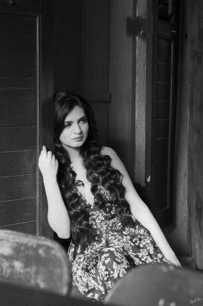 Niharika Singh is the winner of Femina Miss India Earth 2005. She also won the subtitles of Miss Beautiful Hair and Miss Photogenic and went on to represent India at the Miss Earth pageant in Manilla, Phillipines. She has endorsed various Products, featured in various TV commercials and music videos. She will make her acting debut with Ashim Ahluwalia's 'Miss Lovely' All works © Ayush Das/ Strange Sadhu® Films 2011/ Facebook Page | Official Website